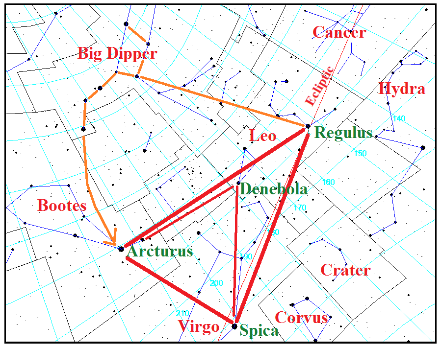 Spring triangle Full Sky logo